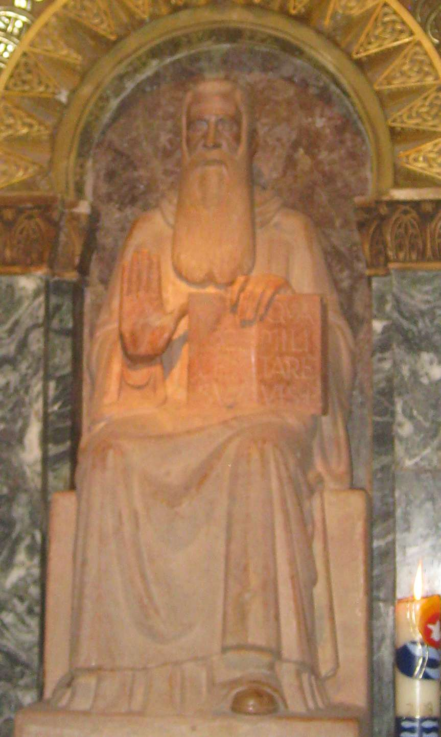 St. Benedict statue at The Dormition Church on Mount Zion in Jerusalem; inscription: "(Ecce lex sub) qua militare vis" (Regula Benedicti 58,10)